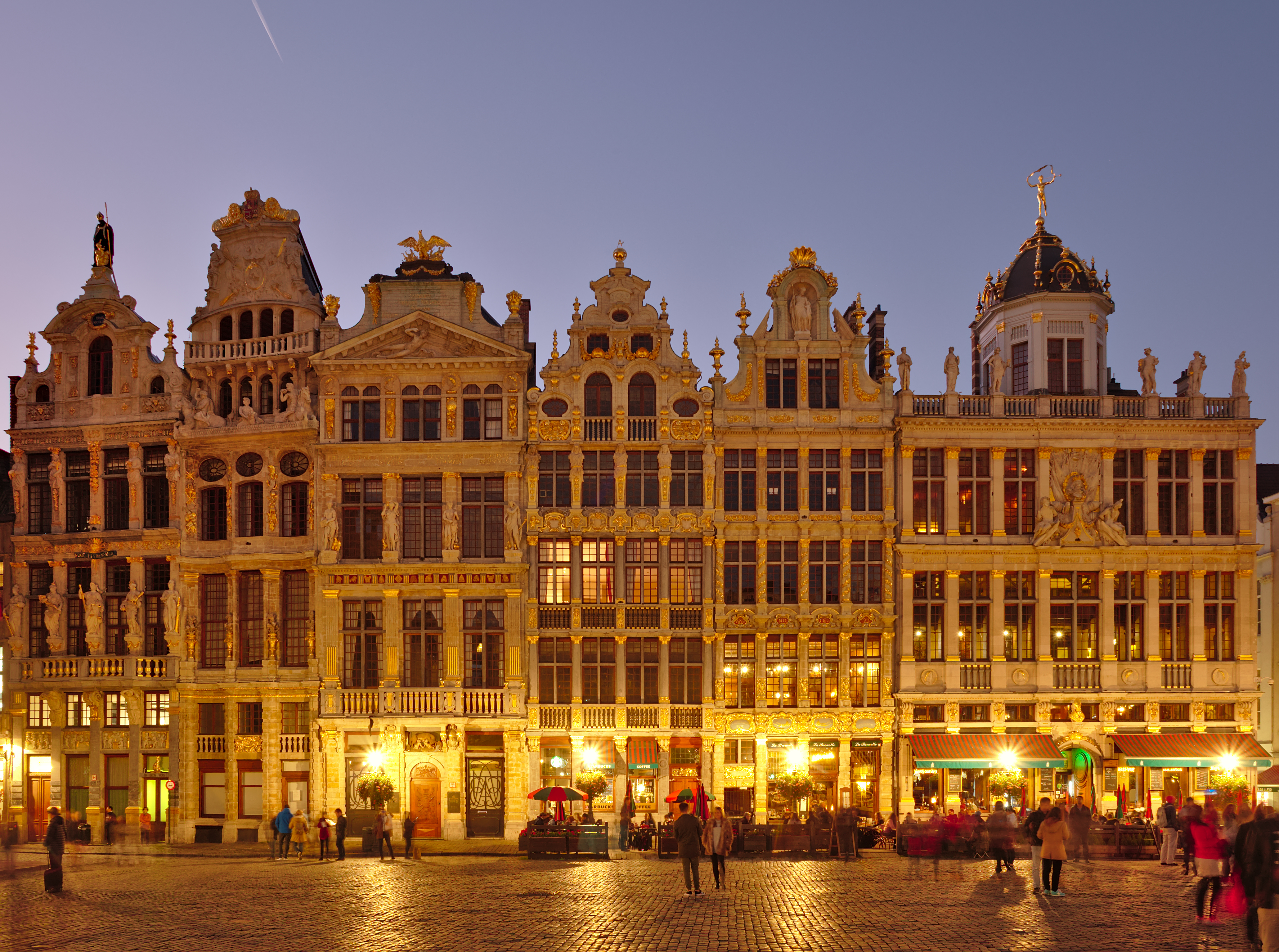 Grand Place 1-7 during civil twilight, Brussels This photo of immovable heritage has been taken in the Brussels Capital Region This place is a UNESCO World Heritage Site, listed as La Grand-Place, Brussels.